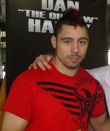 Dan Hardy in 2010.